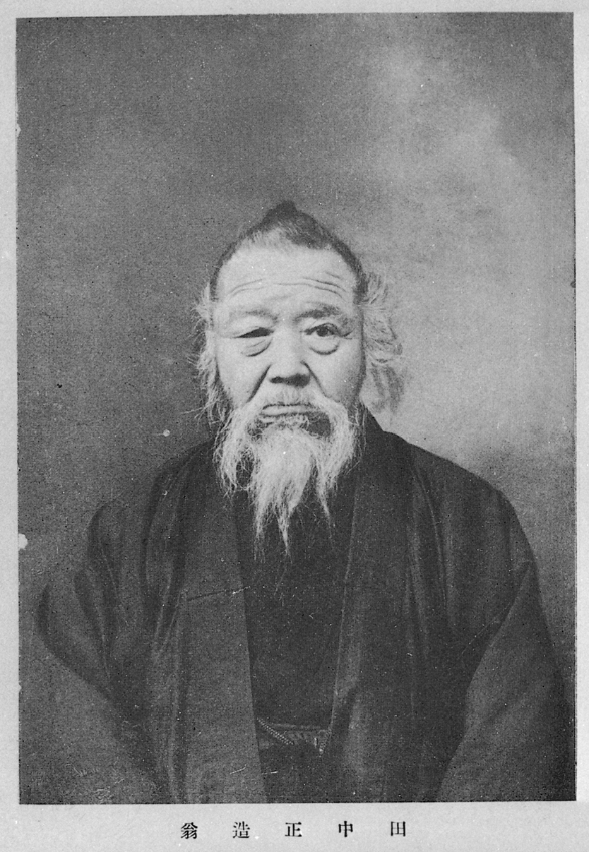 Portrait of Tanaka Shozo (田中正造, 1841 – 1913)